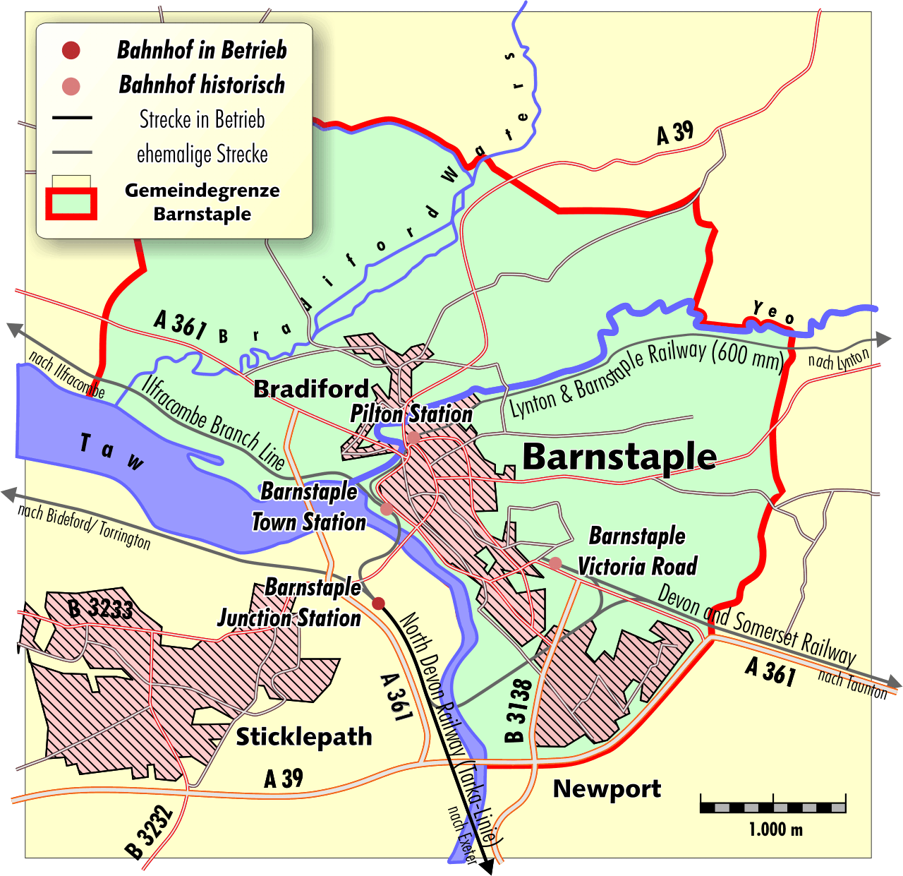 map district of Barnstaple, North Devon including its transport infrastructure